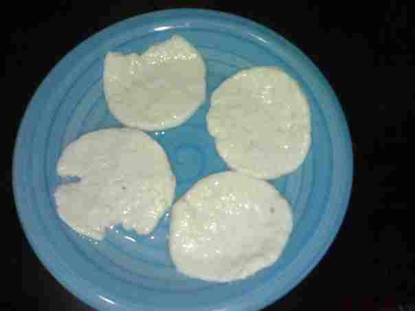 Kiseyo